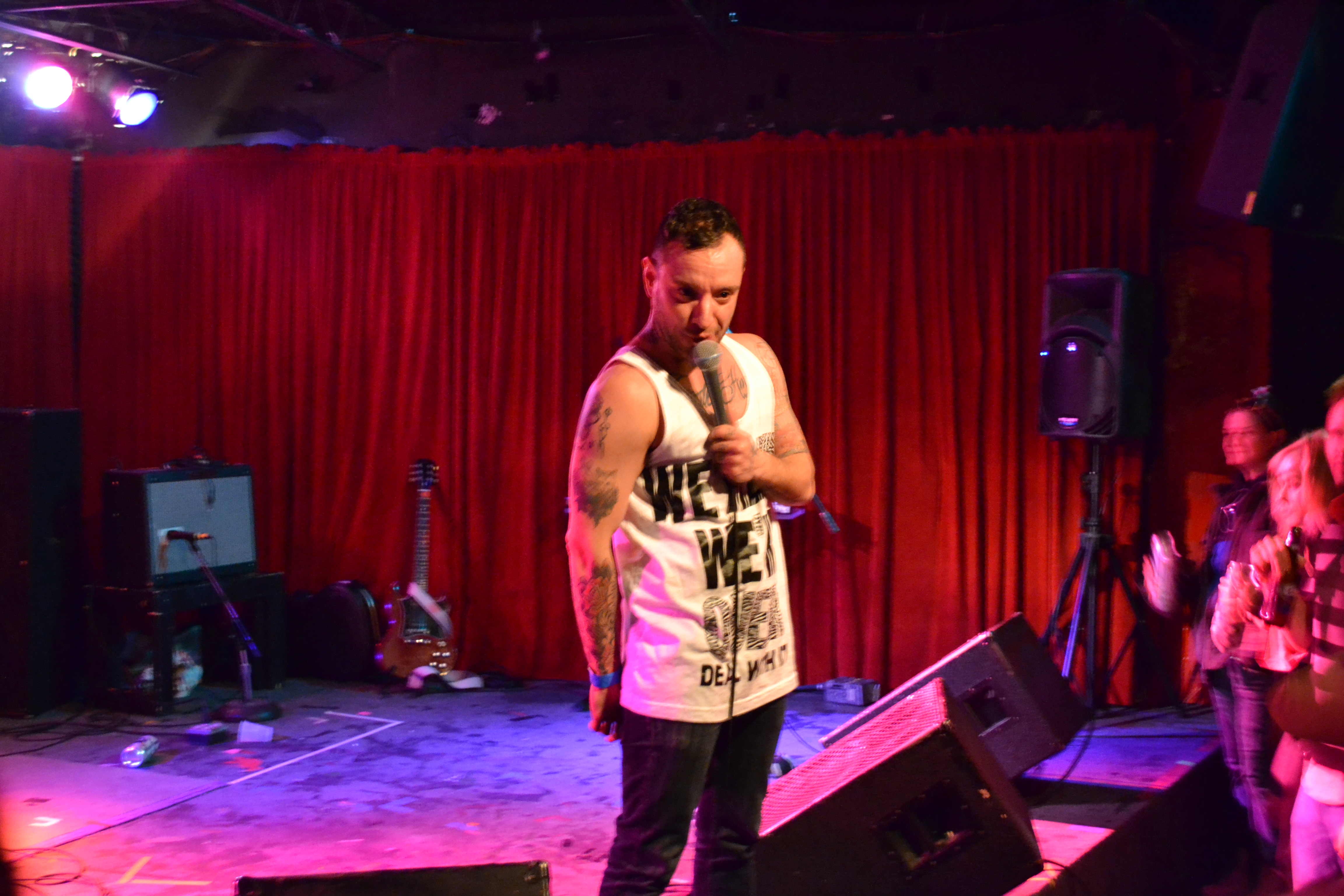 Katastrophe performing at the Grog Shop in Cleveland Heights, Ohio.